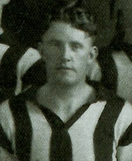 Photo of Leo Tyrrell in 1940